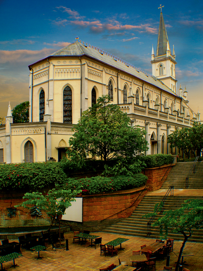 A beautifully restored convent housing art gallleries, souvenir shops, pubs and restaurants. It was once home to The Catholic girls' school, the Convent of the Holy Infant Jesus (CHIJ). There is a special door called "Gate of Hope" in the former convent where babies were abandoned by poor families for the Catholic nuns to look after.